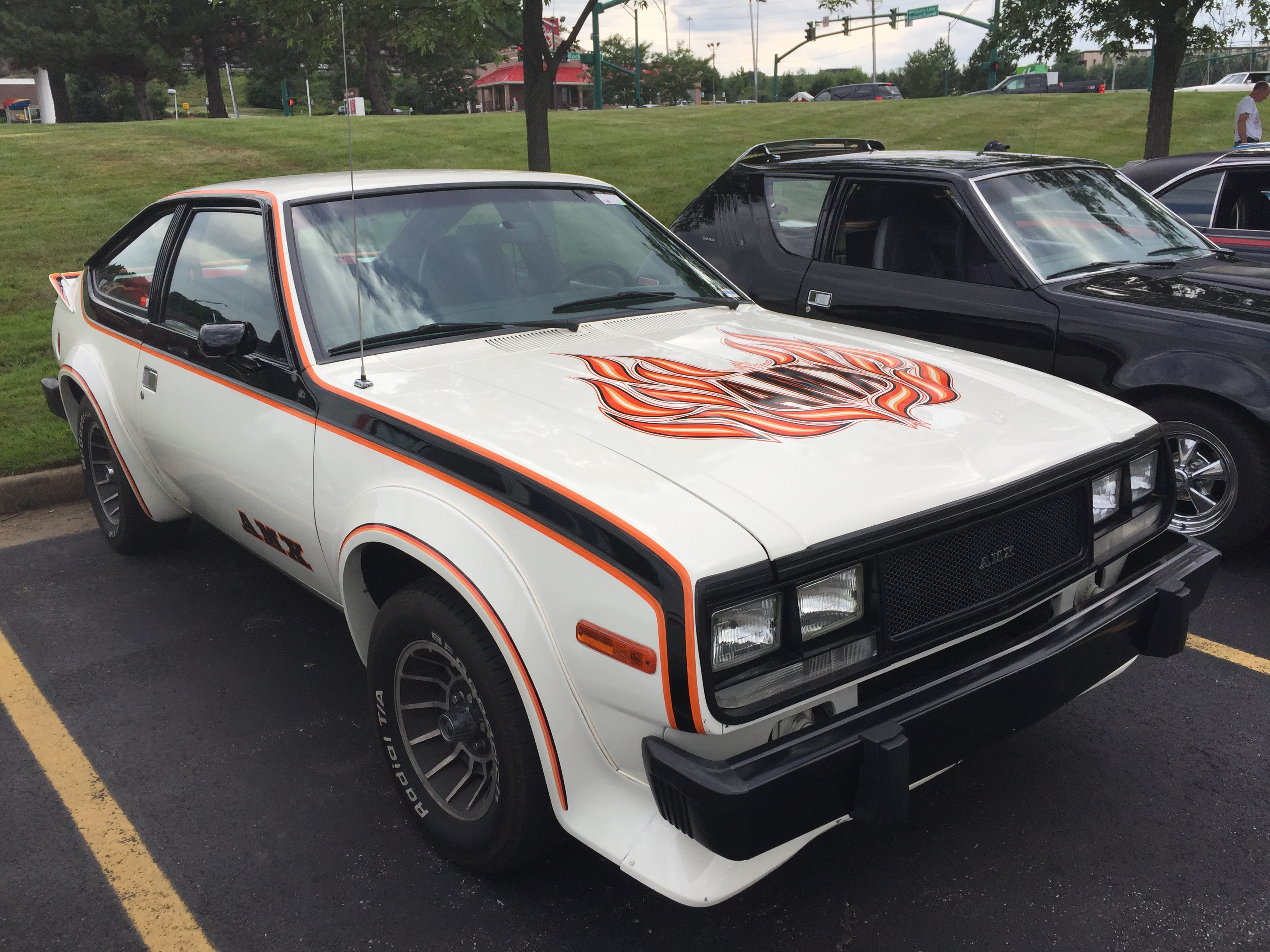 1979 AMC AMX, a sports compact built by American Motors. This car has AMC's V8 and the standard 4-speed manual transmission. Finished in Olympic White (code 9B) with AMX's bodyside trim reproduced and it also has the optional hood decal. This is the one production year for the "AMX" version with the 304 cu in (5.0 L) V8 using the AMC Spirit platform. Photograph taken during the American Motors Owners Association (AMO) annual convention that was held July 2015 near Cleveland, Ohio.